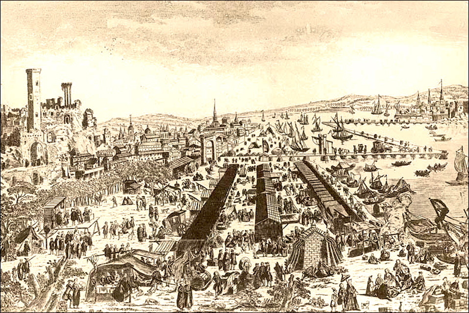 Fear of Beaucaire XVIIIe